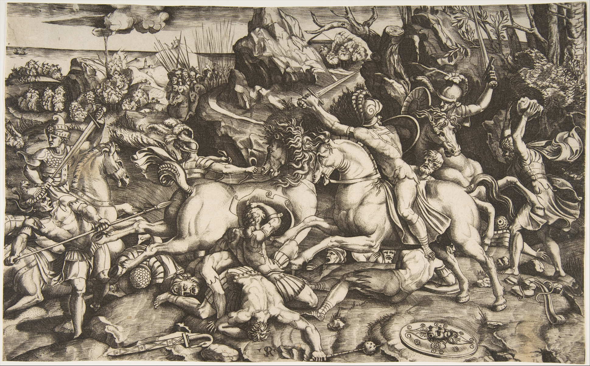 Print; Prints